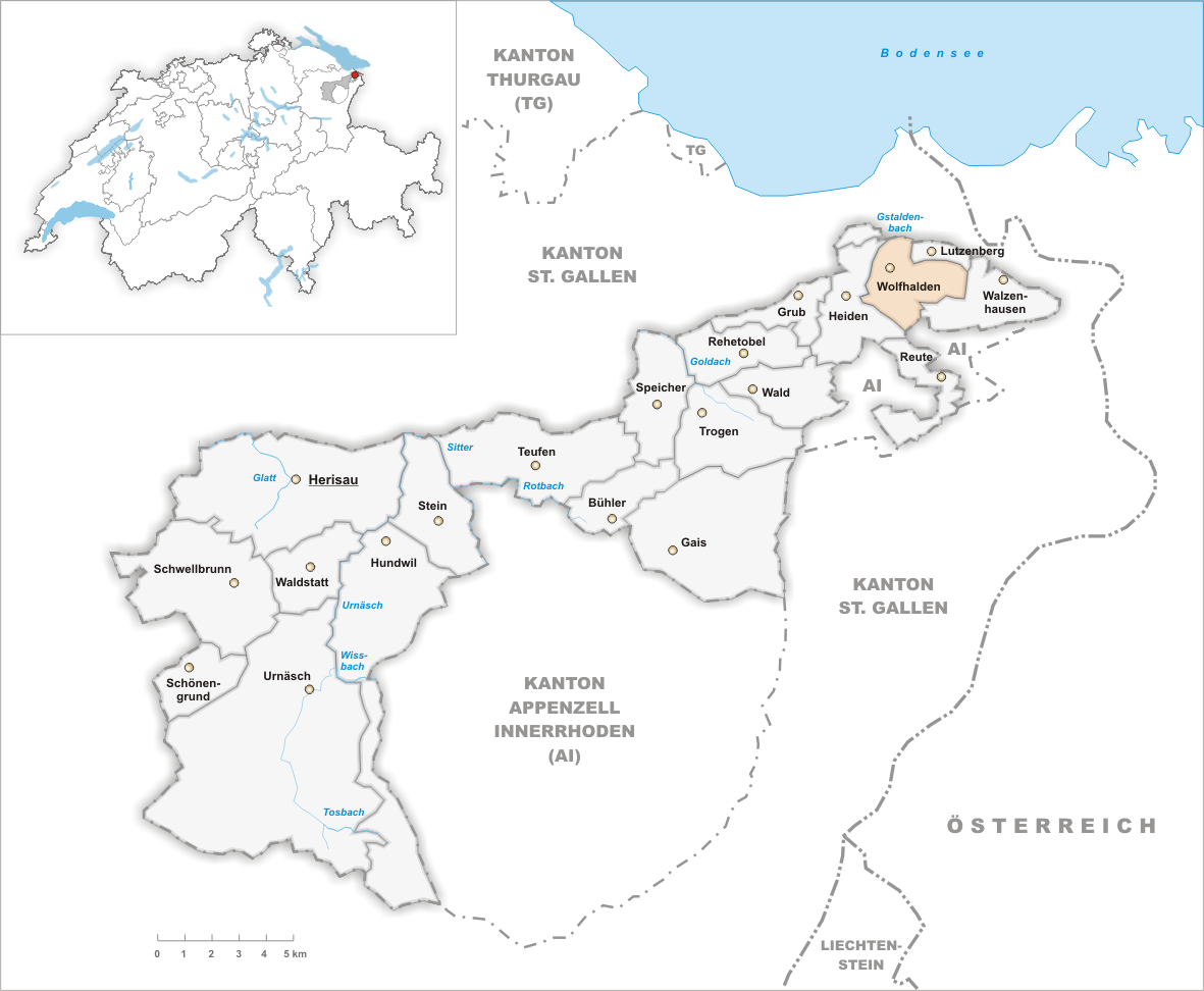 Municipality of Wolfhalden